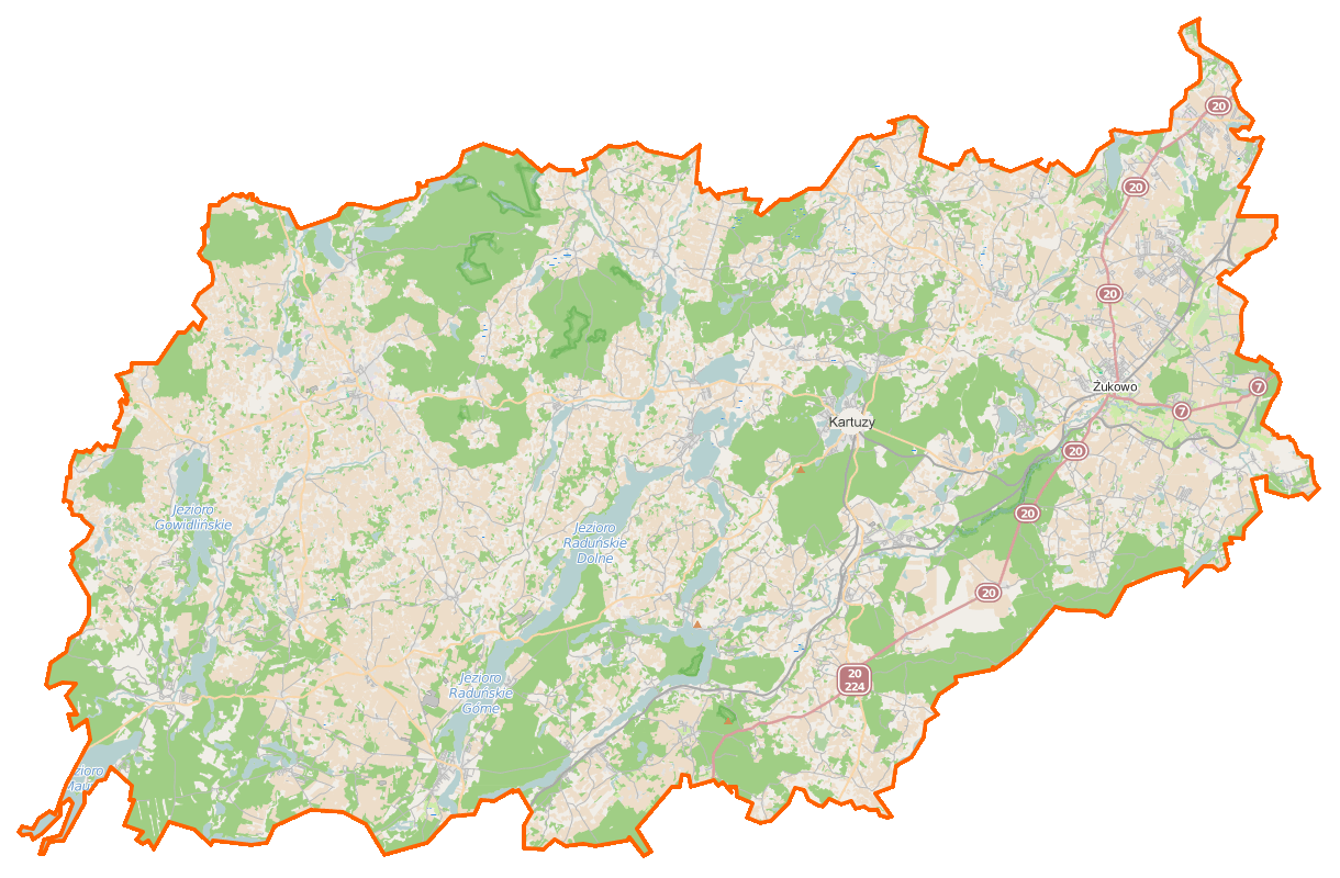 Map of Powiat kartuski, Poland This map of Powiat kartuski was created from OpenStreetMap project data, collected by the community. This map may be incomplete, and may contain errors. Don't rely solely on it for navigation.